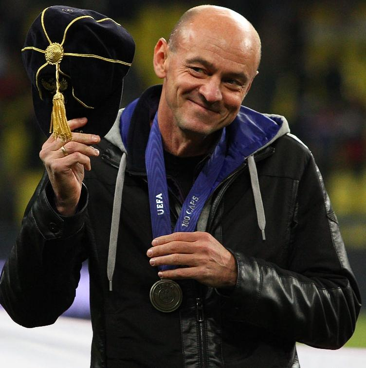 Viktor Onopko awarded by UEFA for playing in 100+ games for the national team.